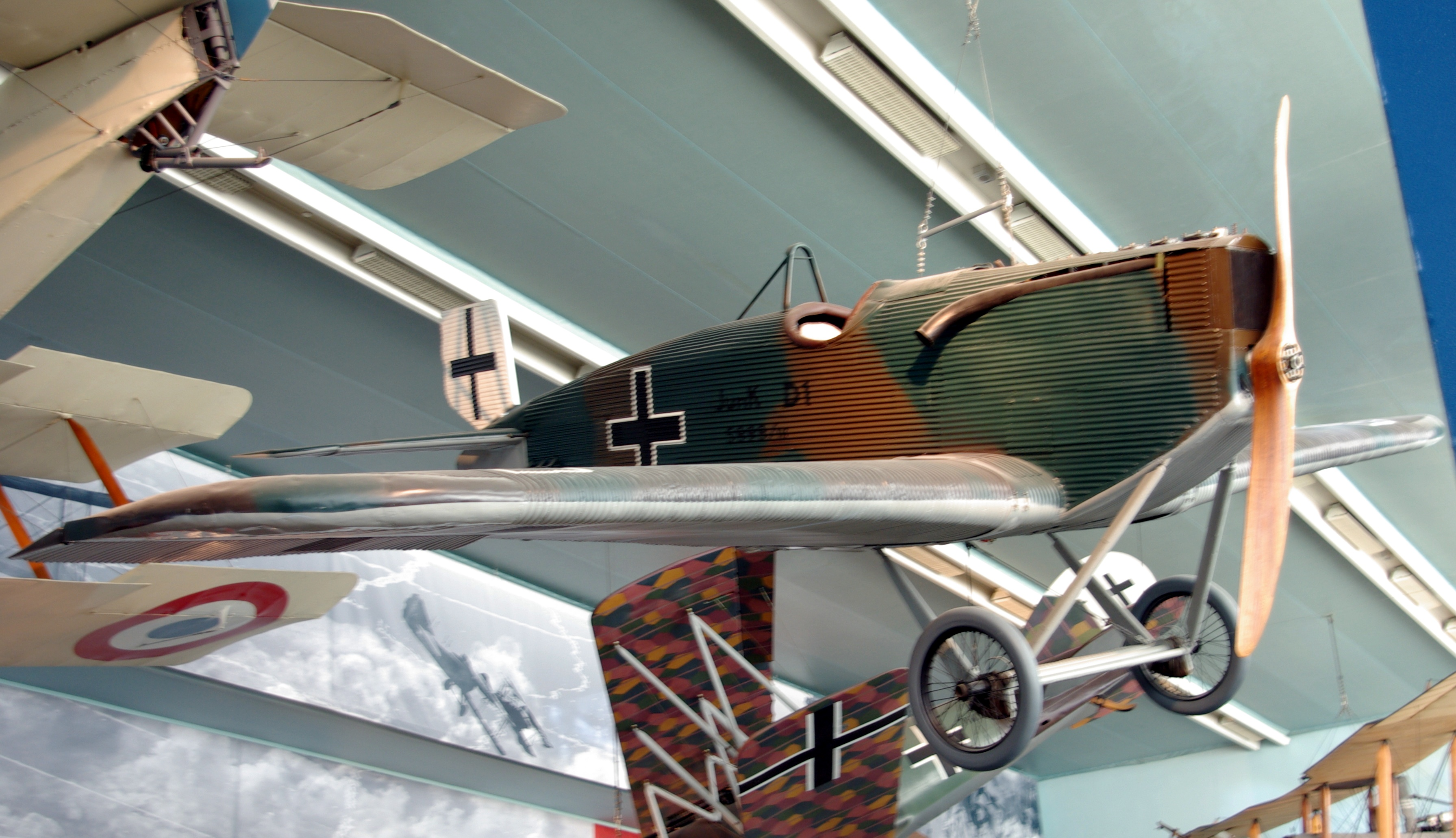 A Junkers D.I exhibited at the Air & Space Museum at Le Bourget, France.